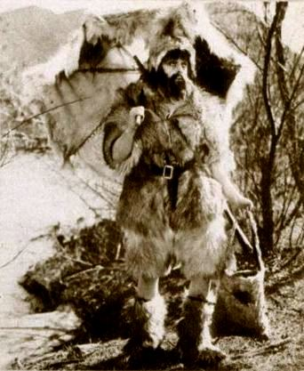 Still for the American film serial The Adventures of Robinson Crusoe (1922) with Harry Myers, on page 24 of the March 23, 1922 Silverscreen magazine.